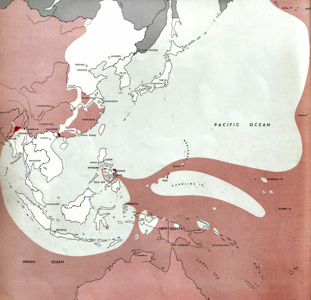 Map of the front against Japan as of 1 Jan 1945: This map is taken from the source "Atlas of the World Battle Fronts in Semimonthly Phases to August 15th 1945: Supplement to The Biennial report of The Chief of Staff of the United States Army July 1, 1943 to June 30 1945 To the Secretary of War". (See Cover, Forward and Map details)